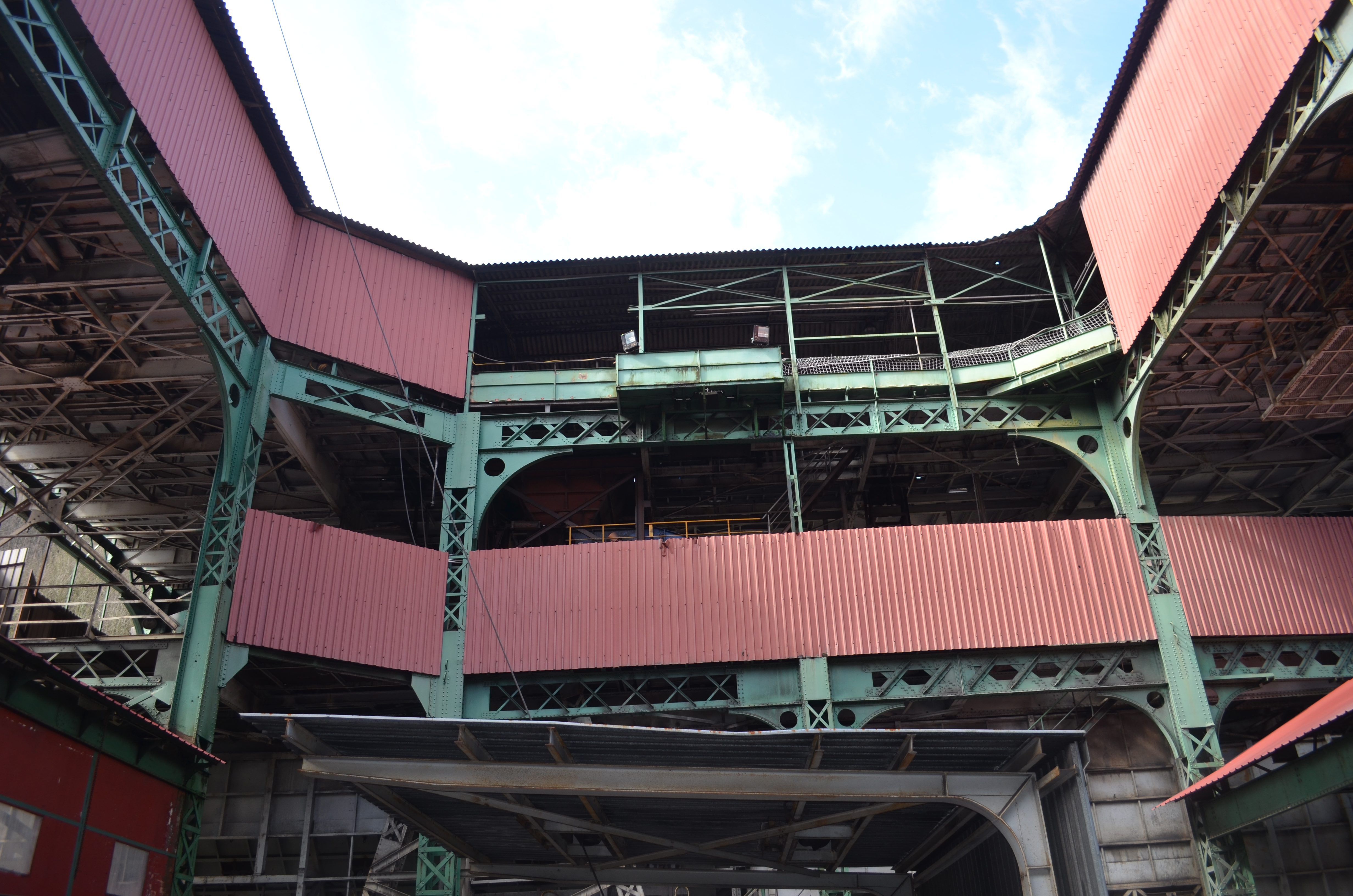 Sotón coal mine, Asturias, Spain